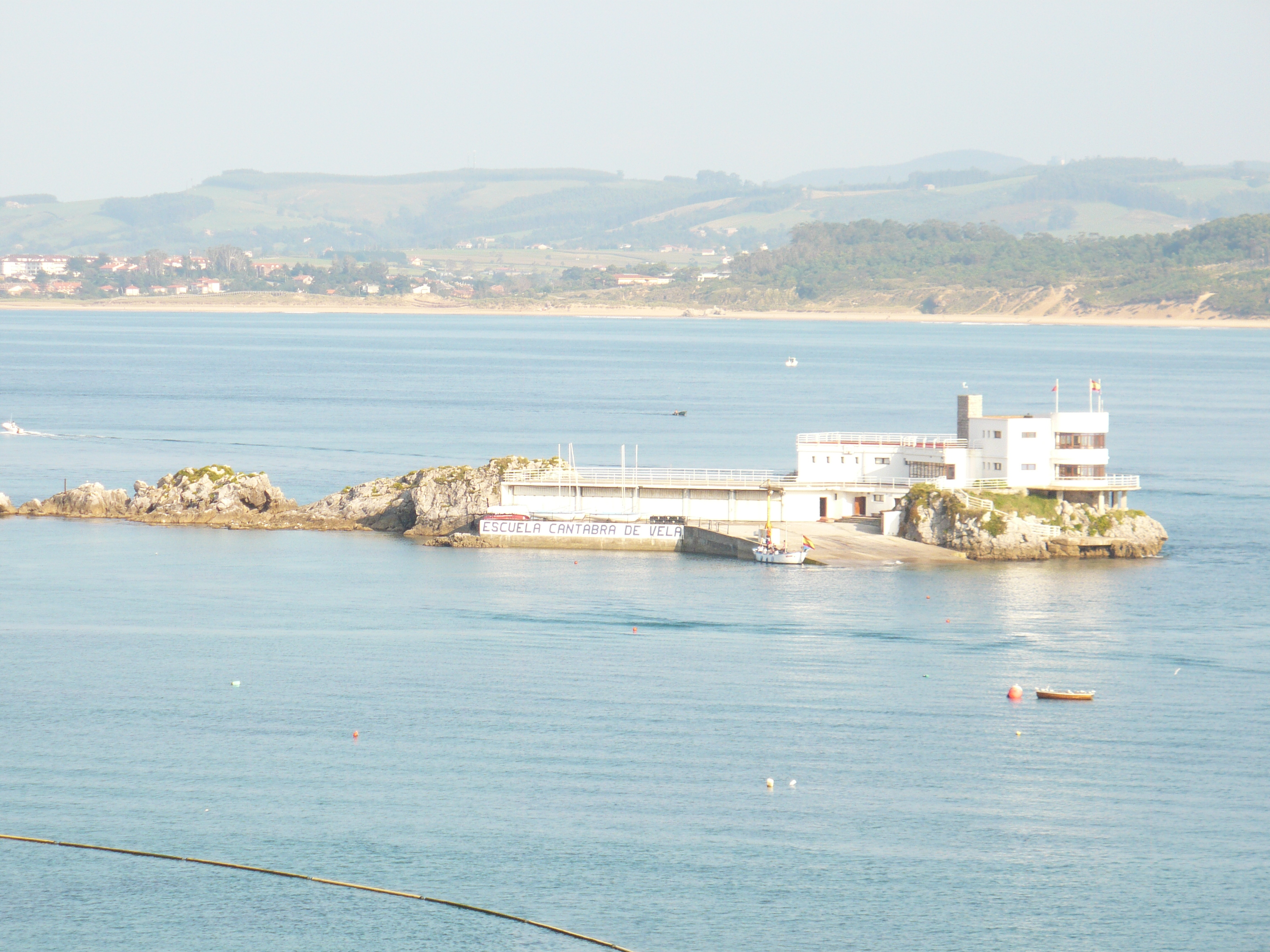 Isla de la Torre (Torre Island), in the bay of Santandé, Cantabria; site of the Cantabrian Sailing School.